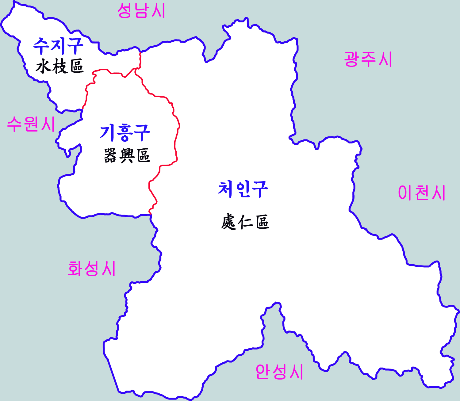 Administrative map of Yongin city